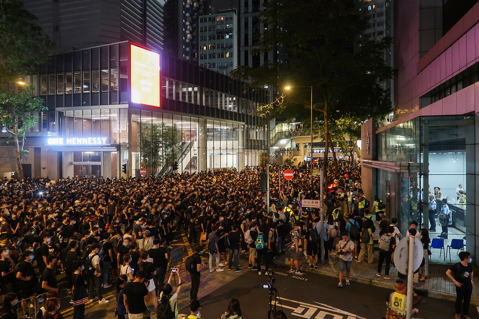 GPolice Headquarters protest